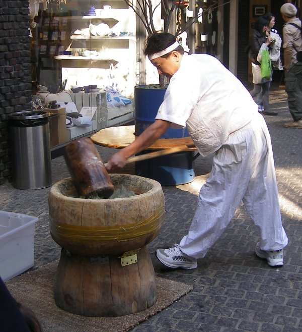 Making Korean rice cakes the traditional way.